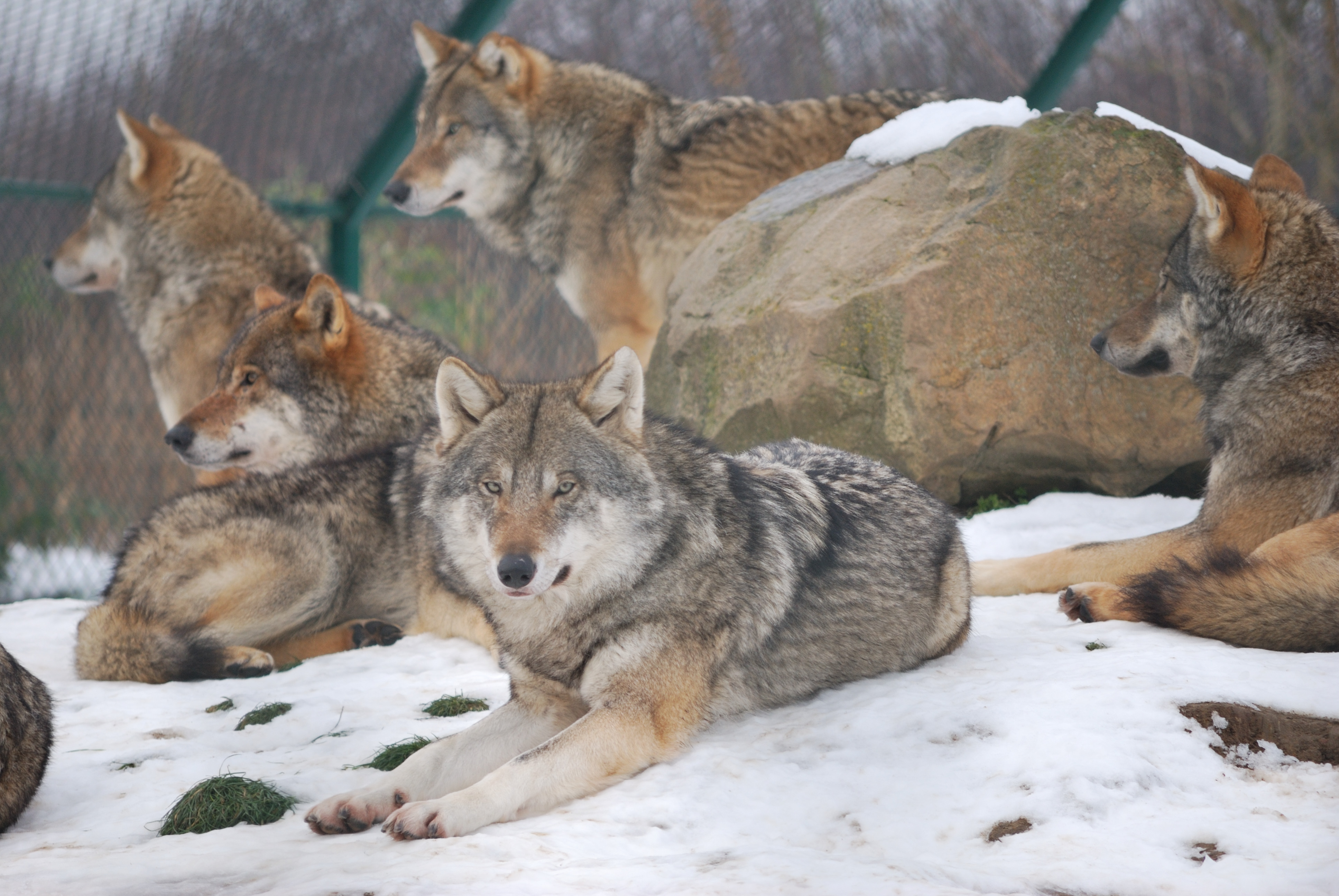 Picture of a group of male wolves (Canis lupus lupus) from the Dutch zoo of Dierenrijk in Mierlo